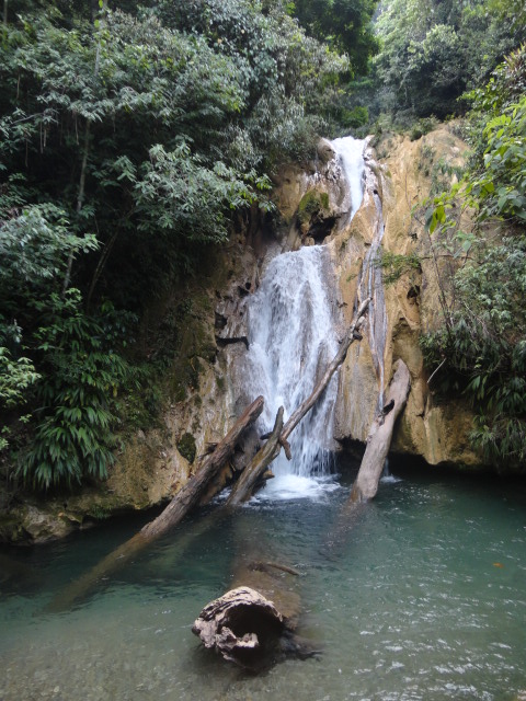 Waterfall in Cerro San Gil Portected Area, Puerto Barrios, Guatemala.